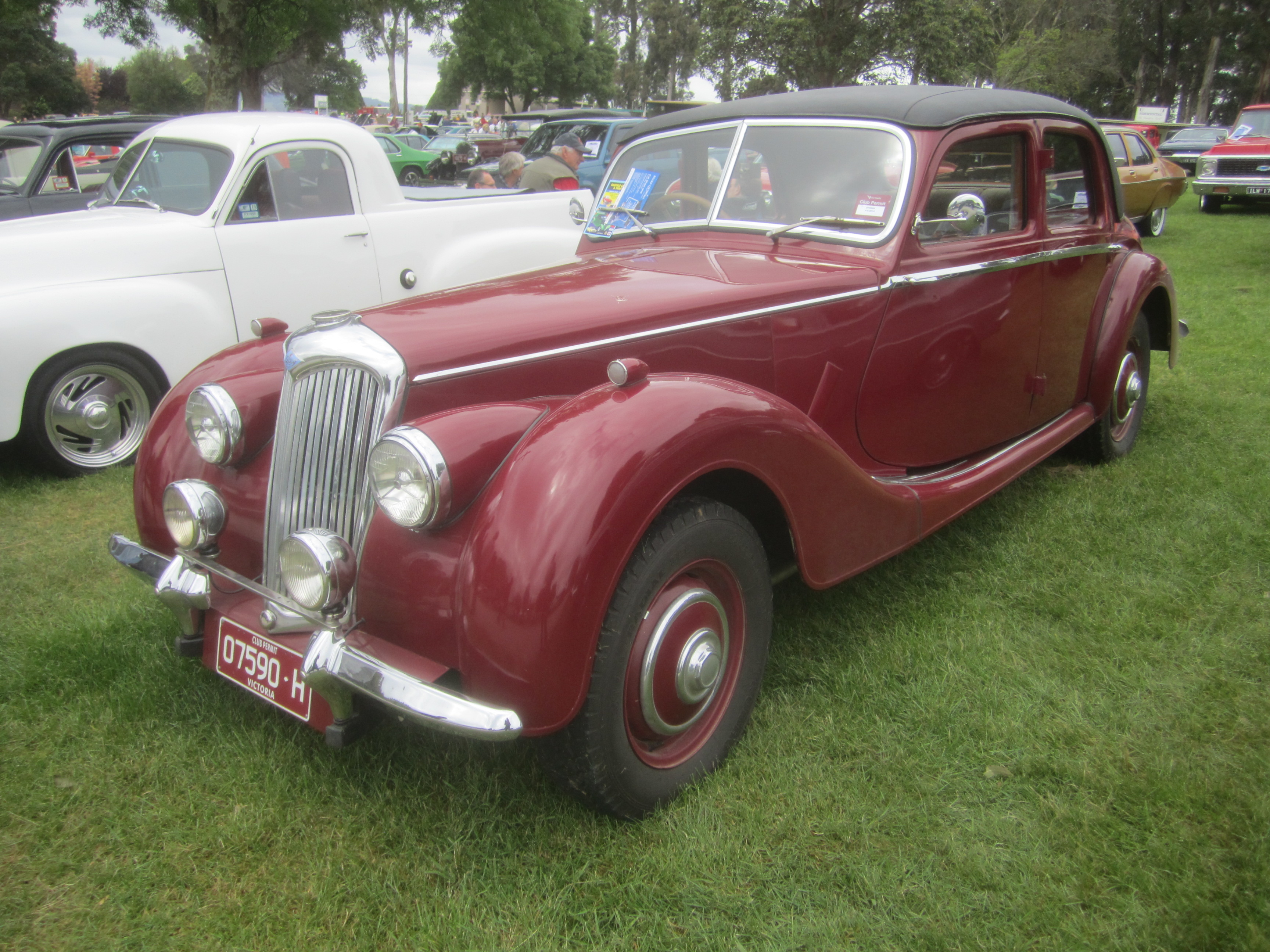 Riley 2½-litre RMB saloon The RM series were the last cars developed by Riley, later cars were badge engineered upmarket BMC saloons. The 1st was the 1945 1500cc RMA and 2500cc RMB replaced in 1952 by the 1500cc RME and 2500cc RMF, the new model got a larger back window and full front bumper. In 1954 the running boards were deleted. The larger engined RMB and RMF got longer bonnets. In 1948 the RMC convertible was introduced, replaced in 1949 by the RMD, more of a drophead coupe convertible, also the RMC had scolloped doors. Engine; 2500cc 4 cyl Engine; 1496cc 4 cyl twin cam